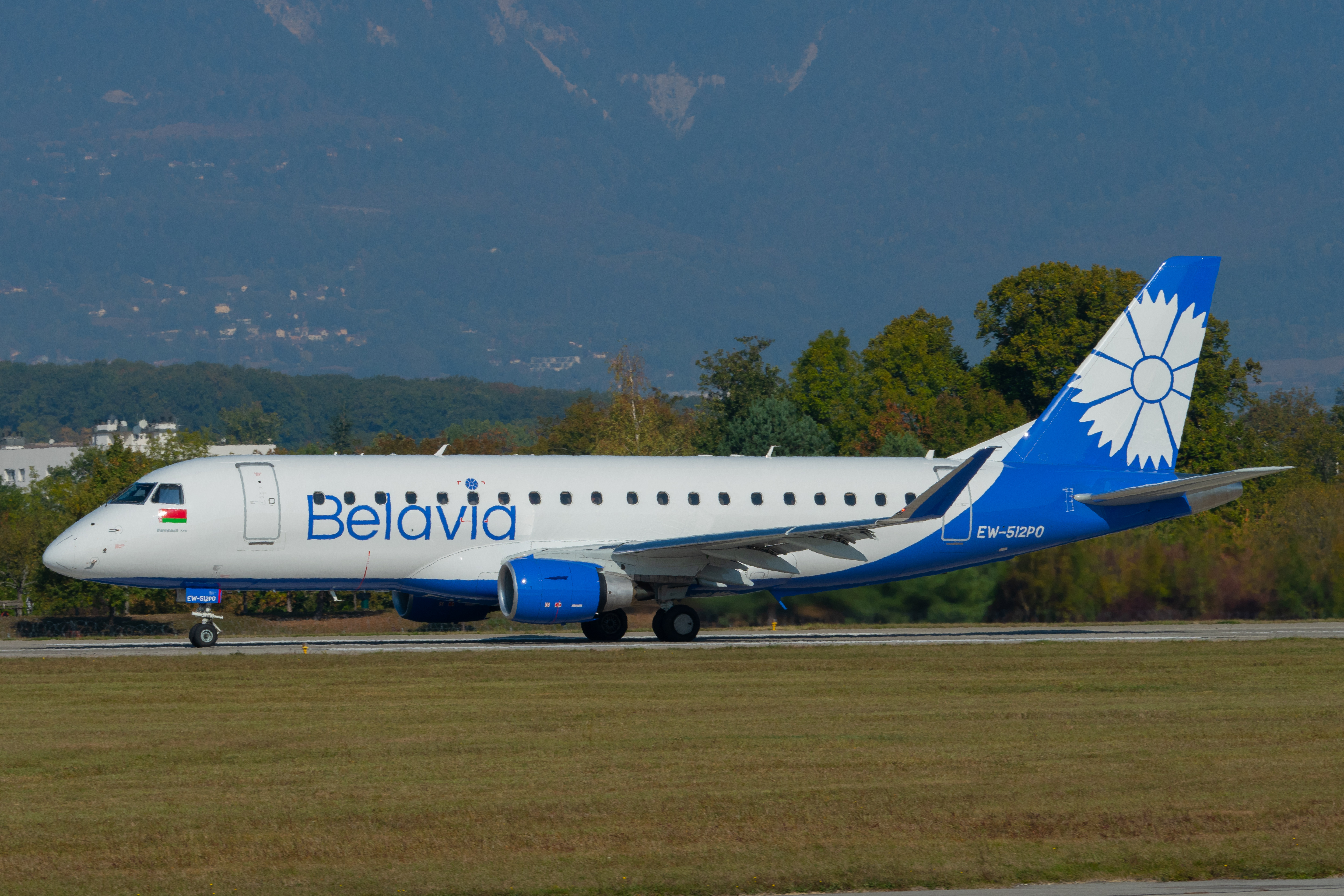 GVA Bois Brûlè Geneva International Airport